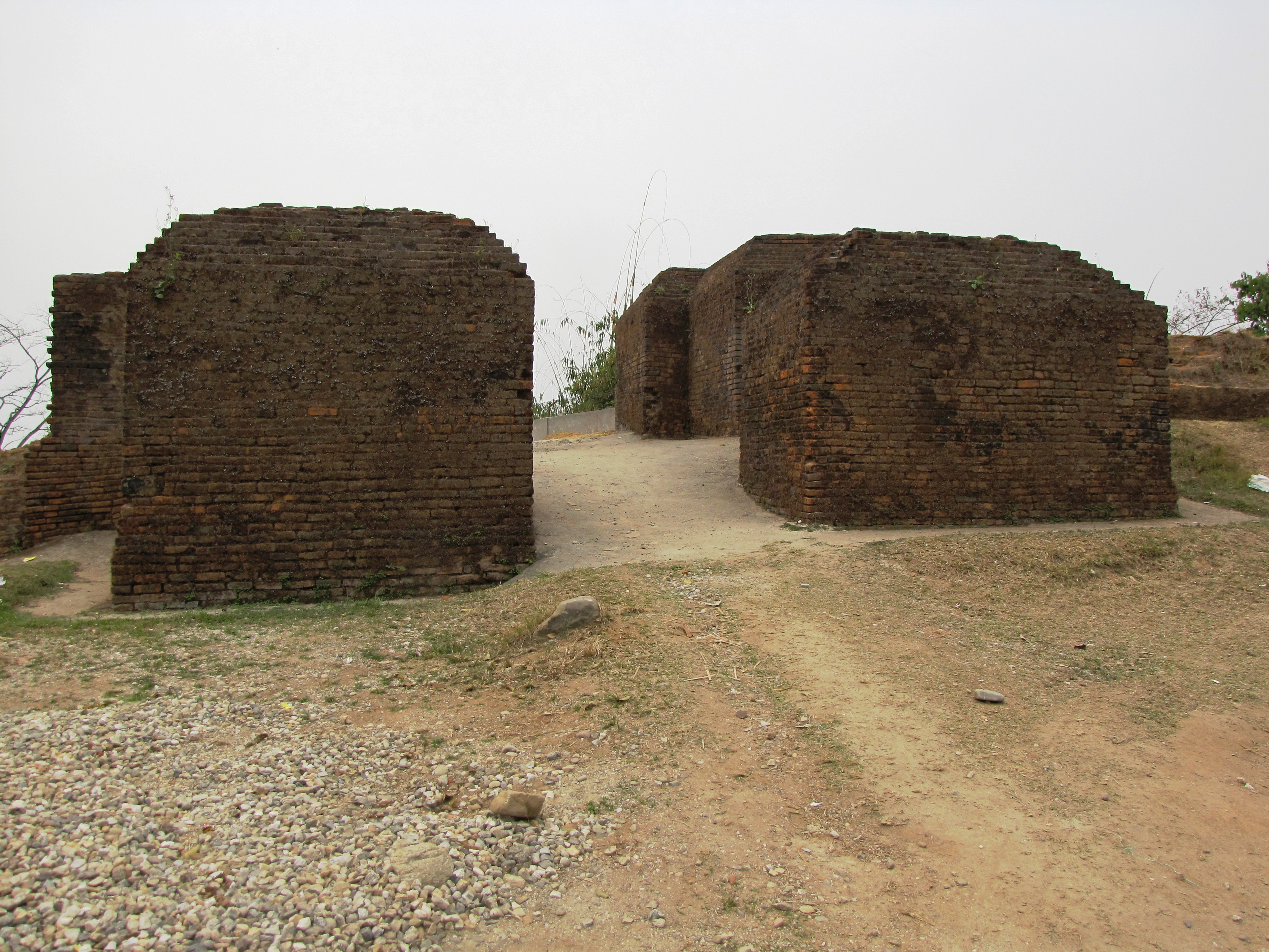 Ita Fort, Itanagar, Arunachal Pradesh, India.